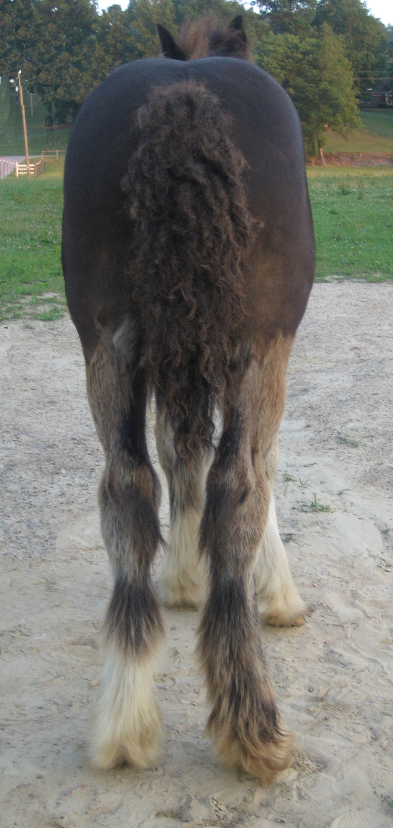 This displays the "pulling horse" hock set of a Gypsy. The subject is a Gypsy horse filly.